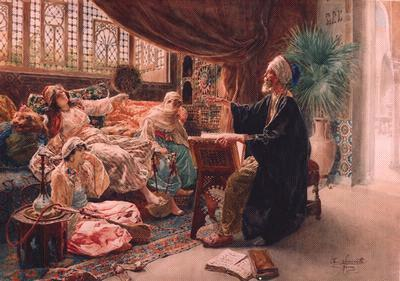 Harem News Reader